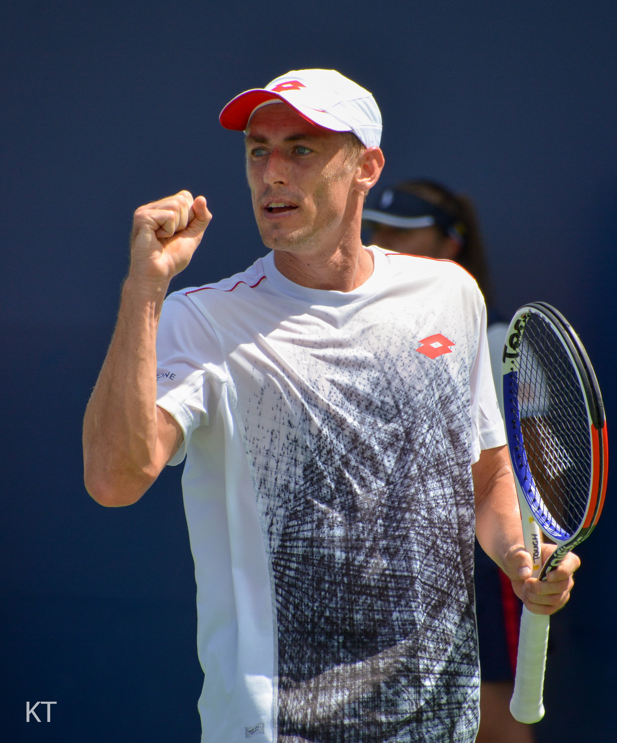 John Millman during his 2nd round match against Fabio Fognini. Millman won 6-1, 4-6, 6-4, 6-1. Day 4 of US Open 2018.